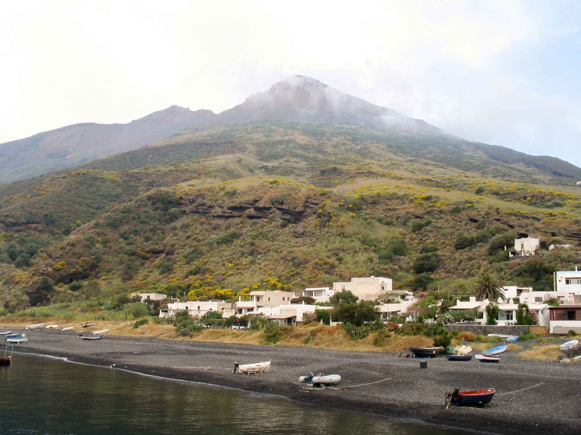 Island of Stromboli, Sicily, Italy